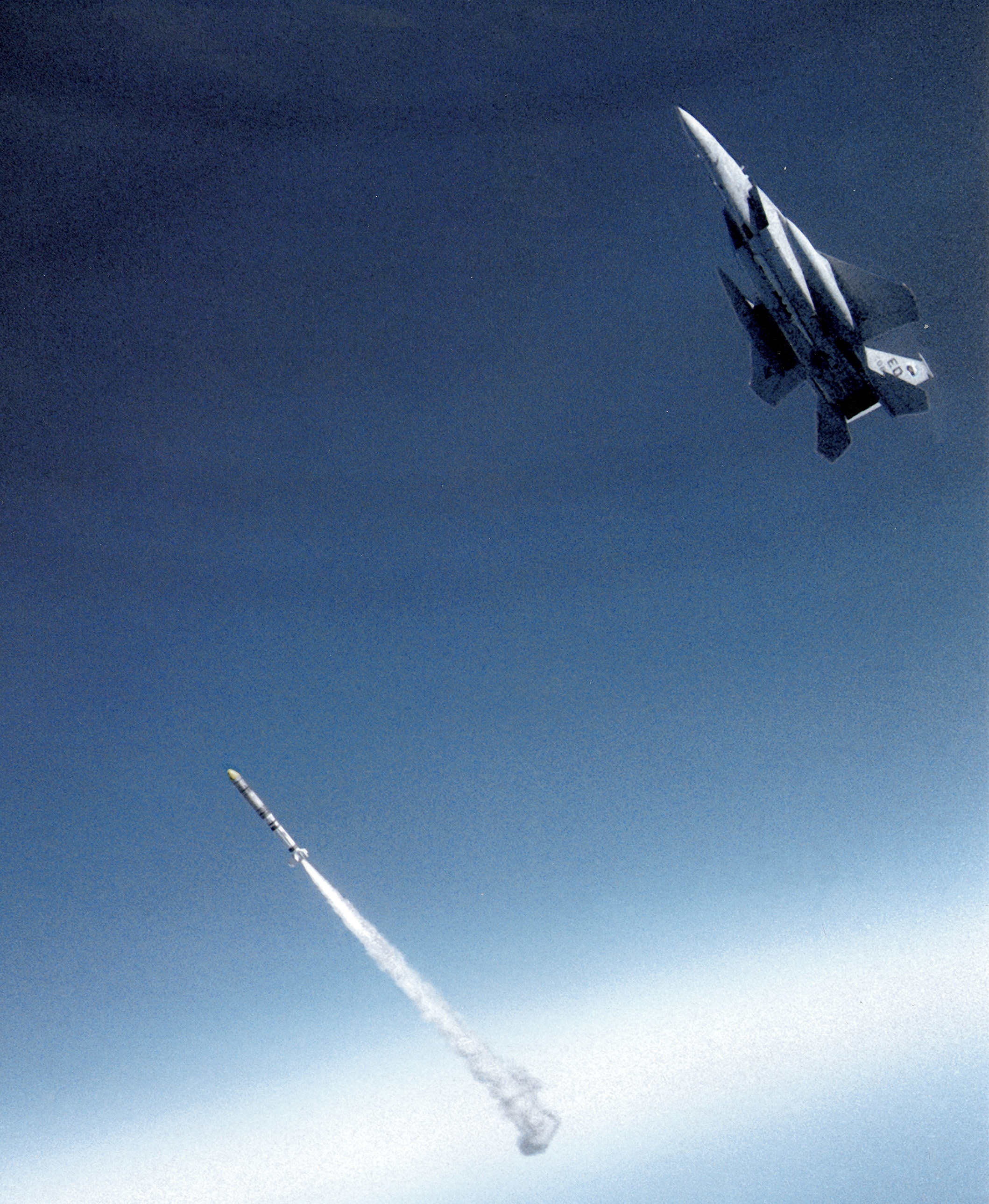 Anti-satellite launch. Maj. Wilbert "Doug" Pearson successfully launched an anti-satellite, or ASAT, missile from a highly modified F-15A Sept. 13, 1985 from Edwards Air Force Base over Pacific Missile Test Range, Calif. He scored a direct hit on a satellite orbiting 340 miles overhead. Official USAF photo by Paul Reynolds